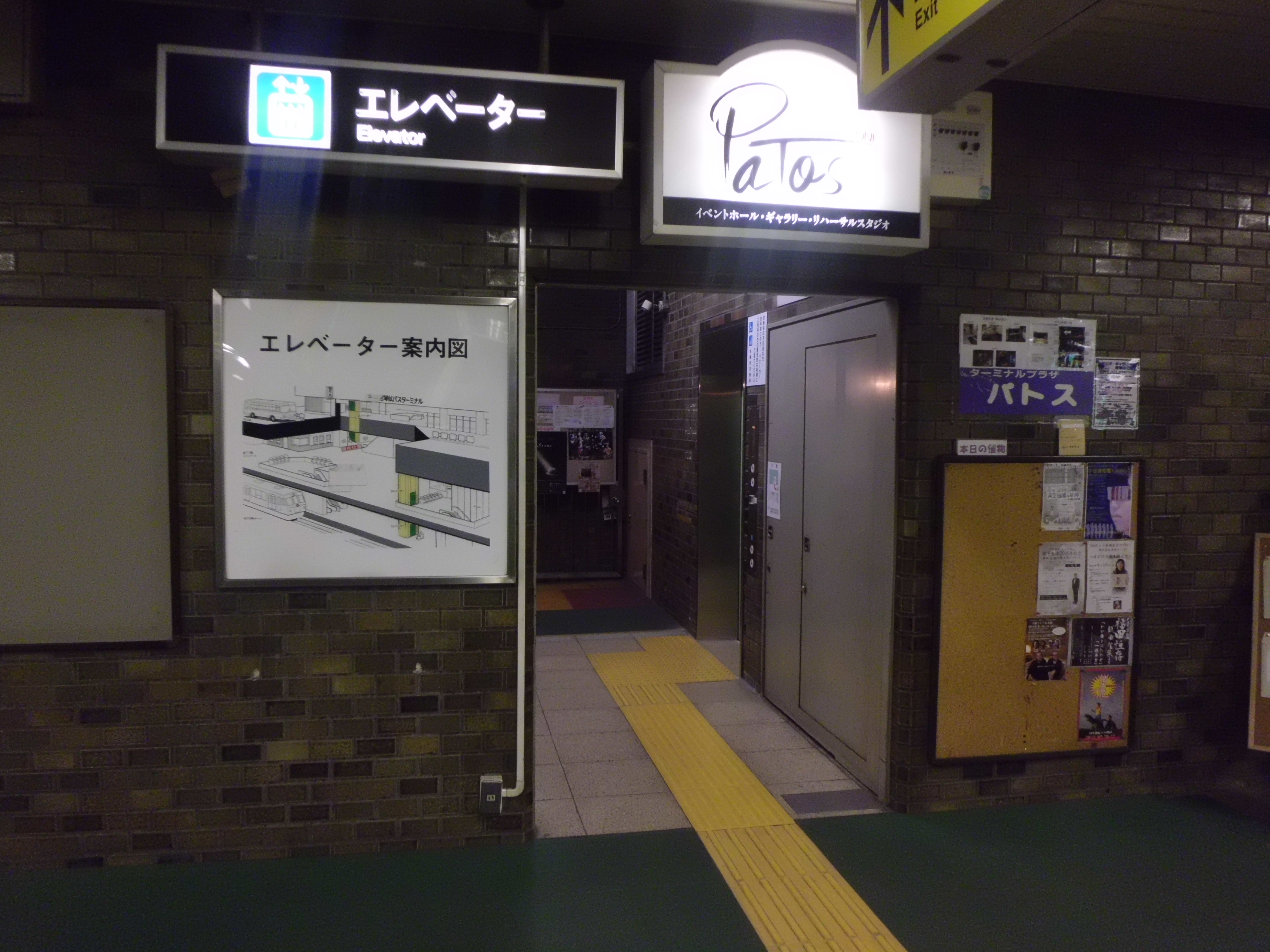 Terminal Plaza Kotoni Pathos